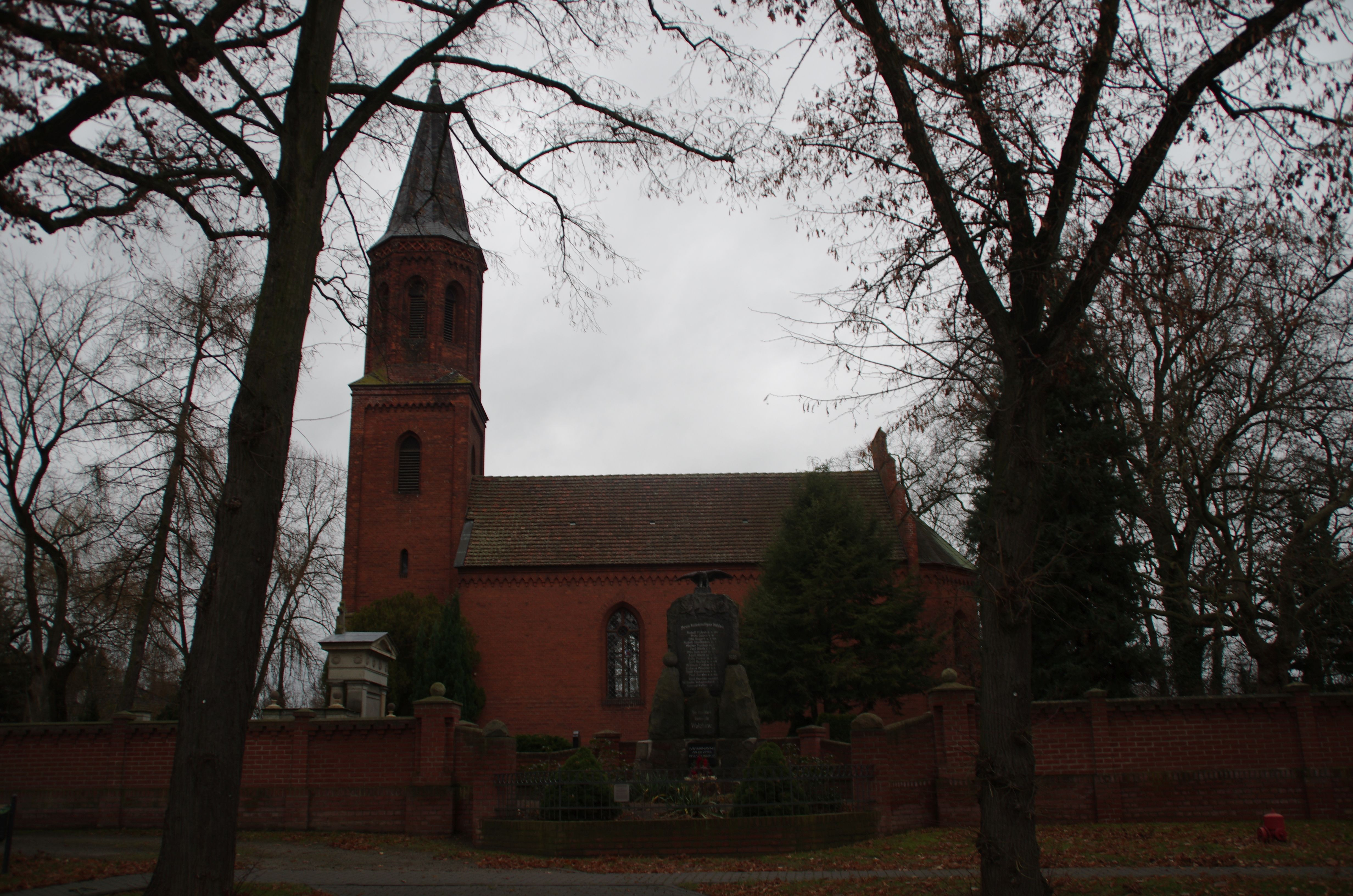 Church of Walchow, Fehrbellin municipality, Ostprignitz-Ruppin district, Brandenburg state, Germany Object location52° 50′ 24.57″ N, 12° 45′ 20.87″ E